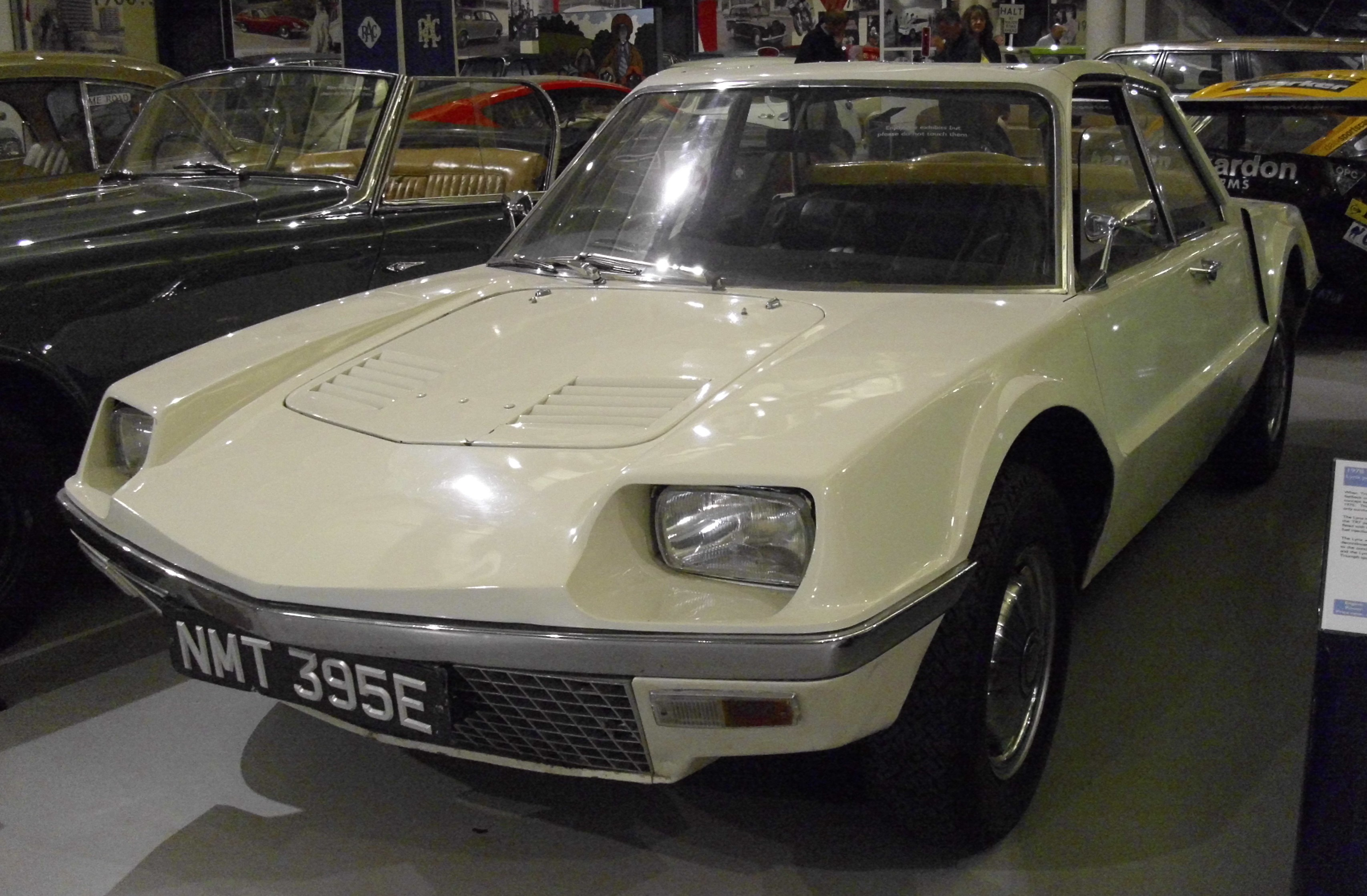 Rover-Alvis P 6 BS 1967